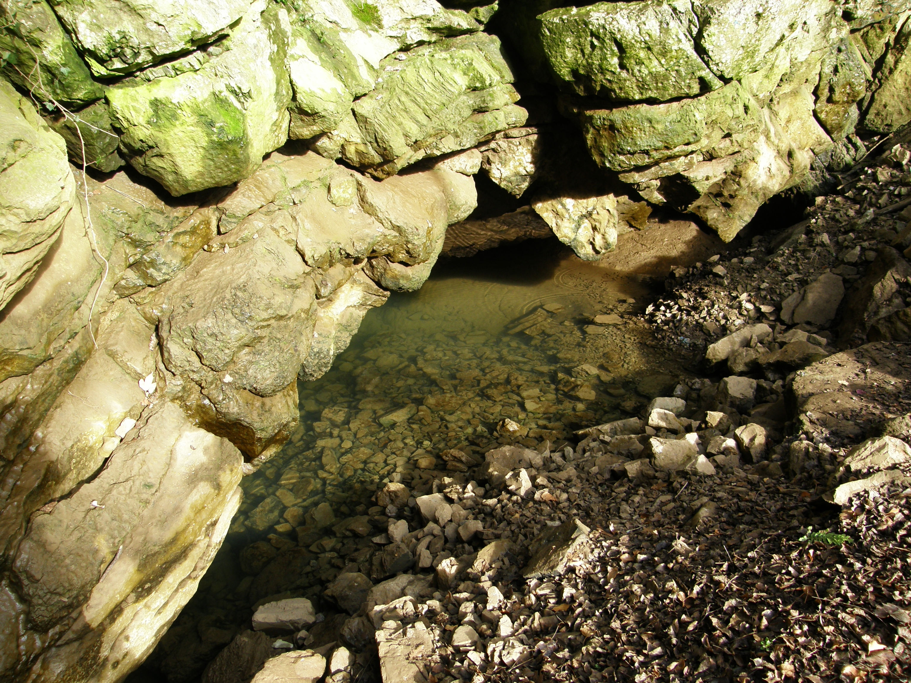 Zijalo, a place where upper karst river Temenica, Slovenia, emerges from its underground passages for the second time.